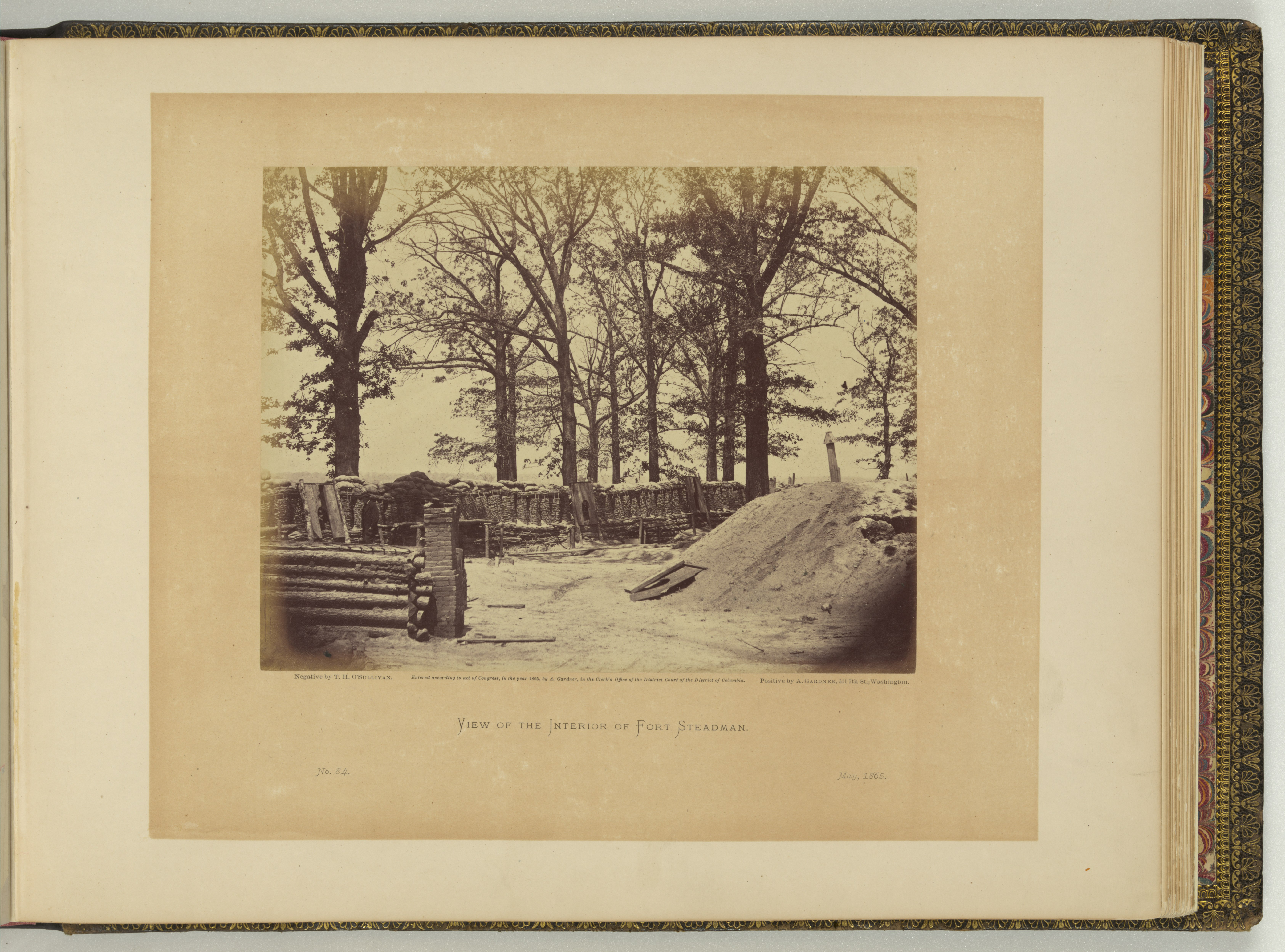 Title: View of the interior of Fort Steadman / negative by T.H. O'Sullivan, positive by A. Gardner. Abstract: 1 photographic print : albumen.